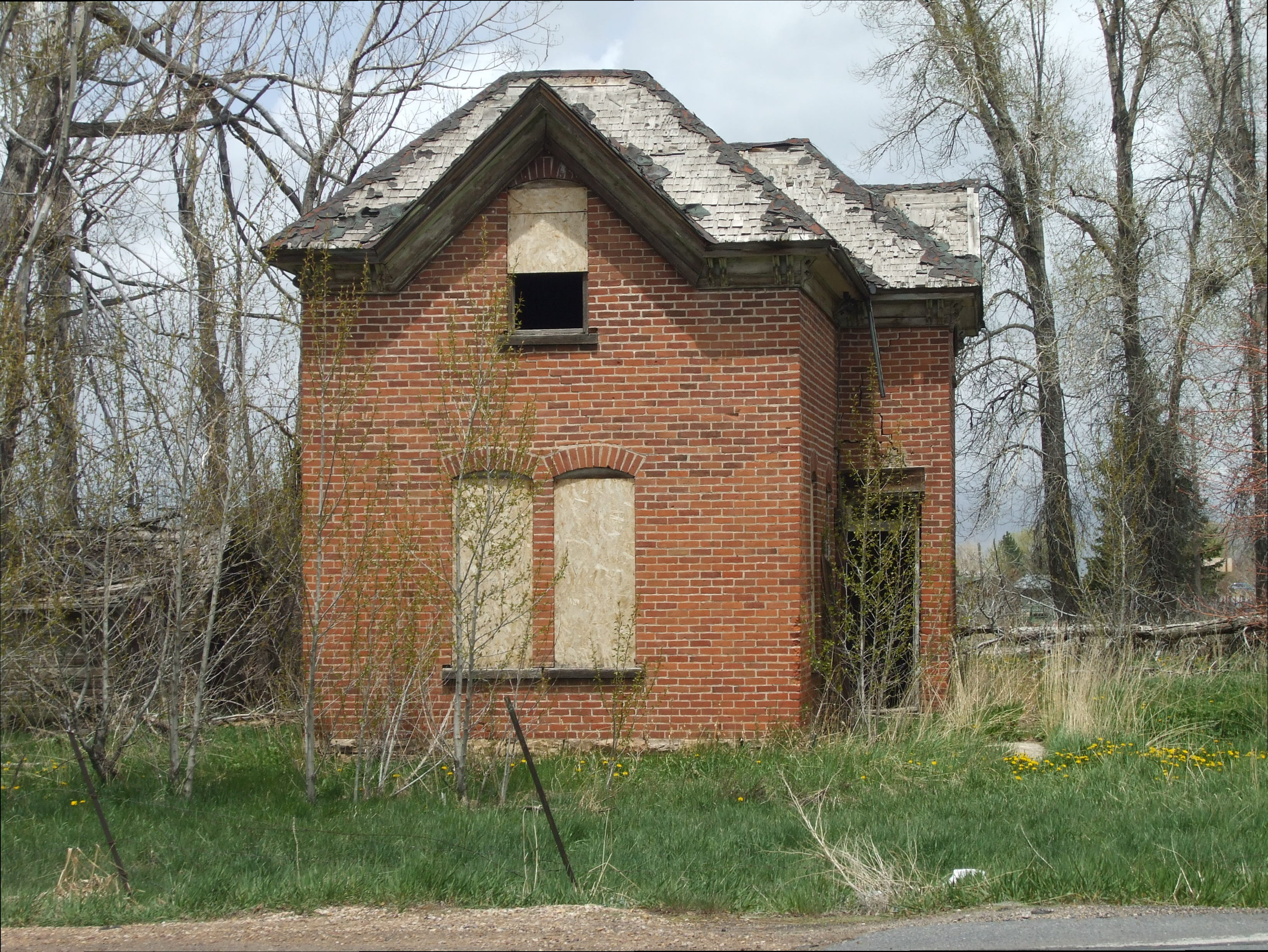 The Byron T. Mitchell House, a historic home in Francis, Utah, United States.